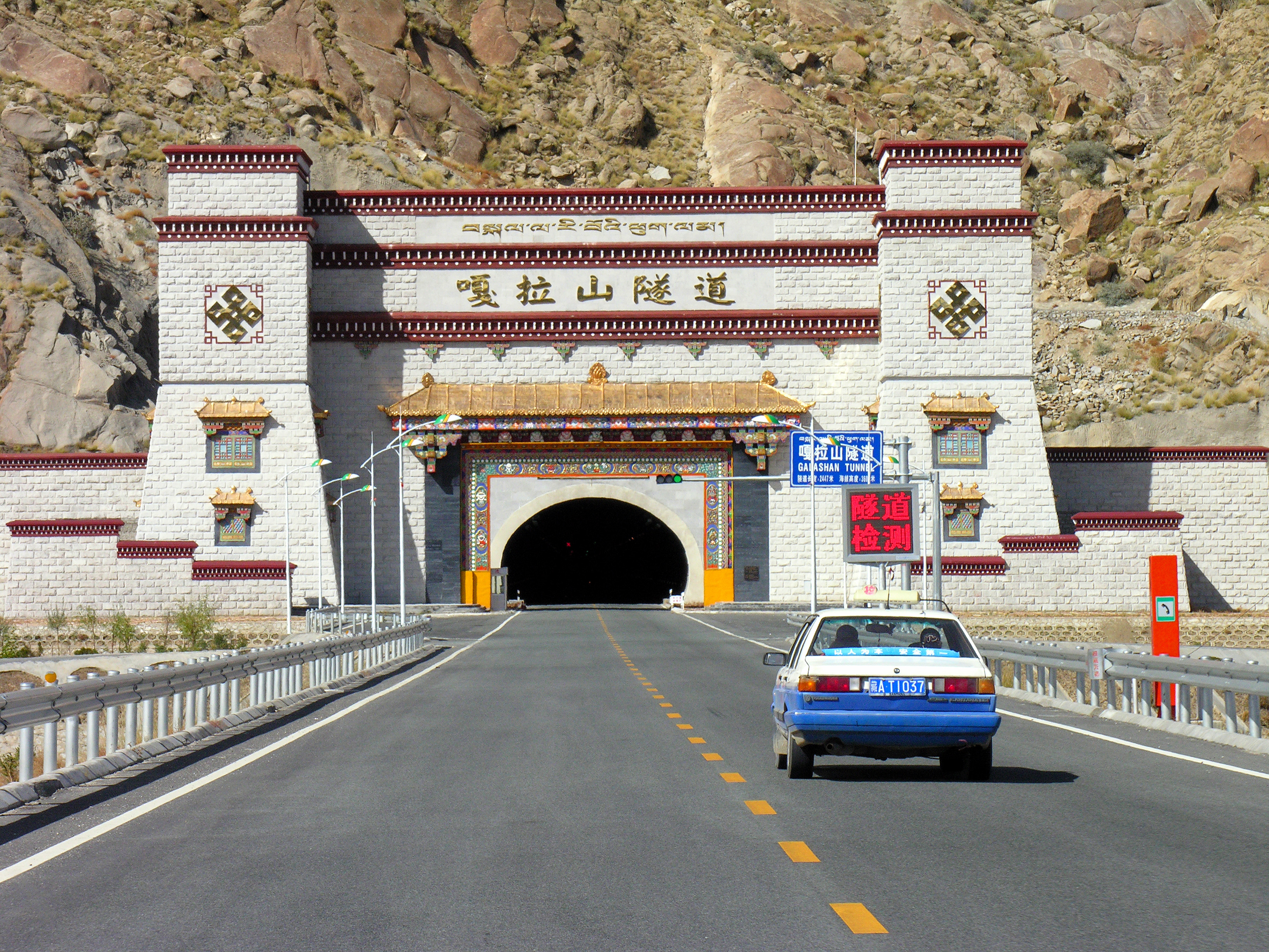 This tunnel is new and has reduced the car ride to Lhasa by one hour. Lhasa, Tibet